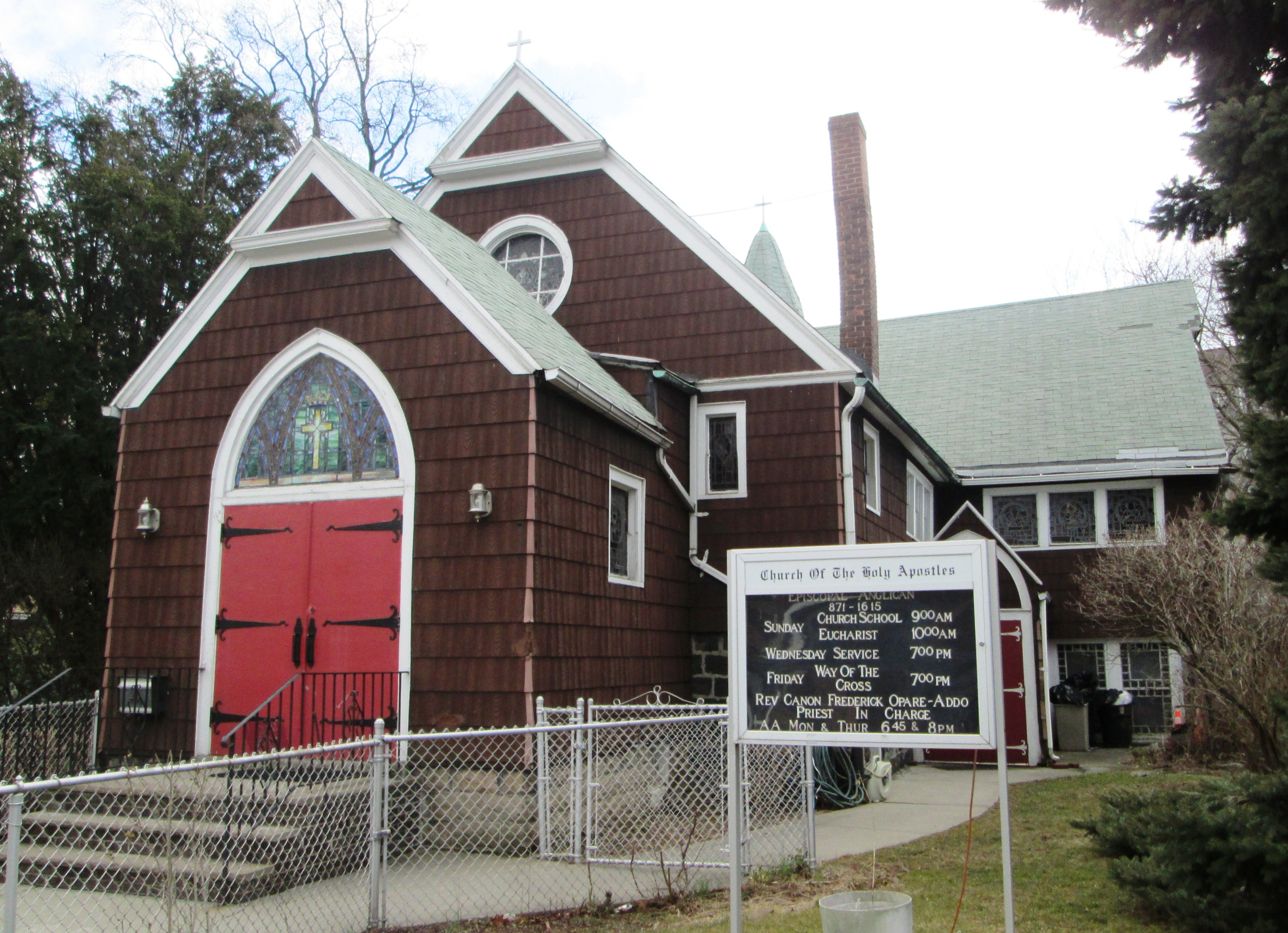 The Episcopal Church of the Holy Apostles at 621 Greenwood Avenue between East 7th Street and Prospect Avenue in the Windsor Terrace neighborhood of Brooklyn, New York City was built in 1891-92. (Source: "History of Apostles")